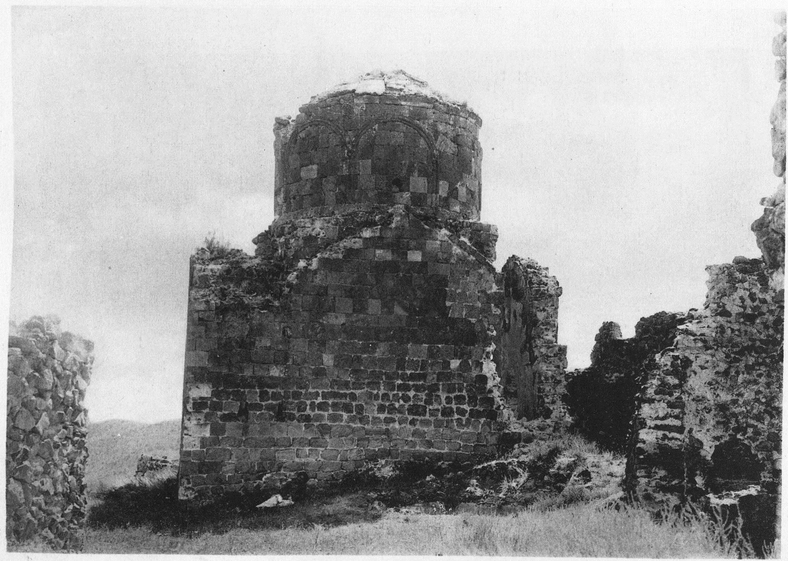 Facade of the medieval Georgian Orthodox church building inside Solomonisi Castle (Solomon-qala) in historical Tao region, Turkey. Photo taken in 1902 during Taq'aishvili's expedition